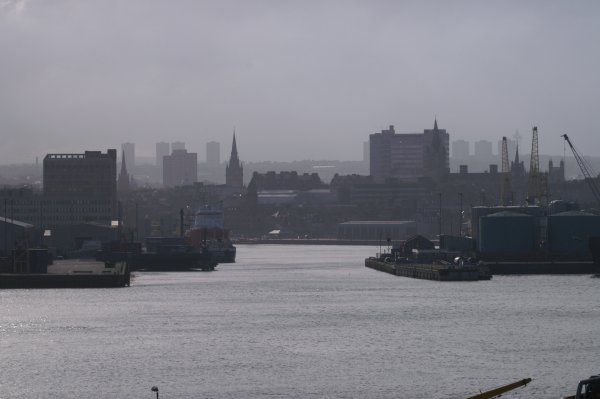 The view of Aberdeen harbour from the Shetland ferry as it leaves harbour.